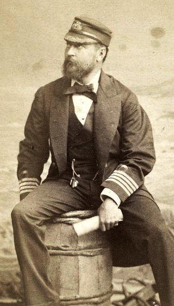 Photograph of Albert Hastings Markham